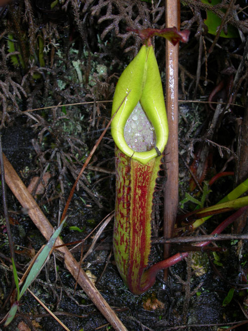 N.fusca Crocker Range